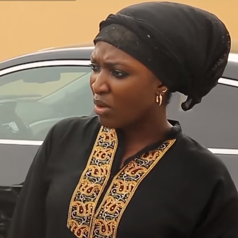 Esther Audu in Apartment 24 on IrokoTV